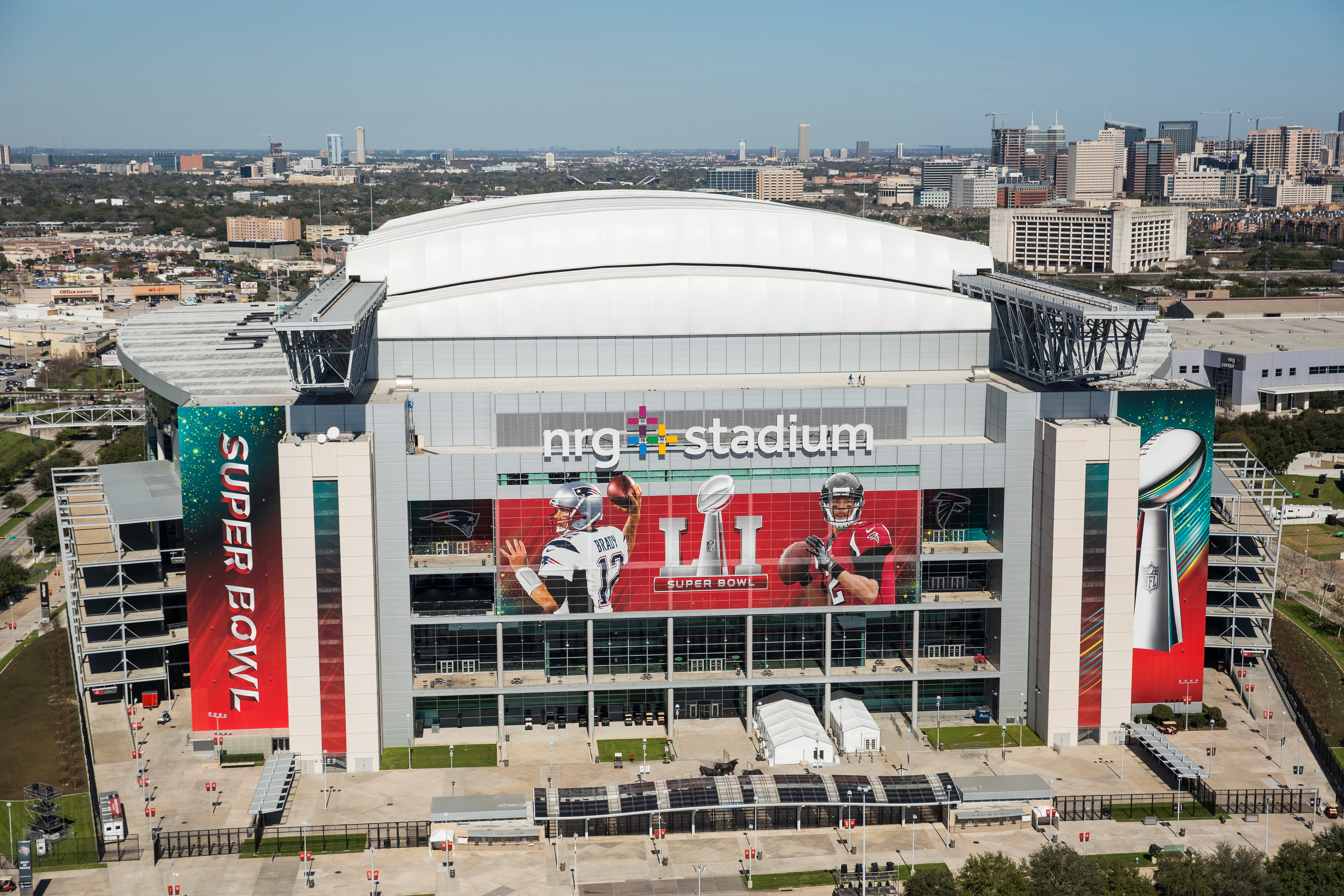 Aerial photograph of NRG Stadium prepared for Super Bowl LI. The stadium has been seathed with decorative banners, and security fencing has been placed around its perimiter. This photograph was taken by Ozzy Trevino (of U.S. Customs and Border Protection) on Jan. 31, 2017 when air interdiction agents U.S. Customs and Border Protection, Air and Marine Operations, conducted a press event and a Black Hawk flyover of NRG Stadium in advance of Super Bowl LI.